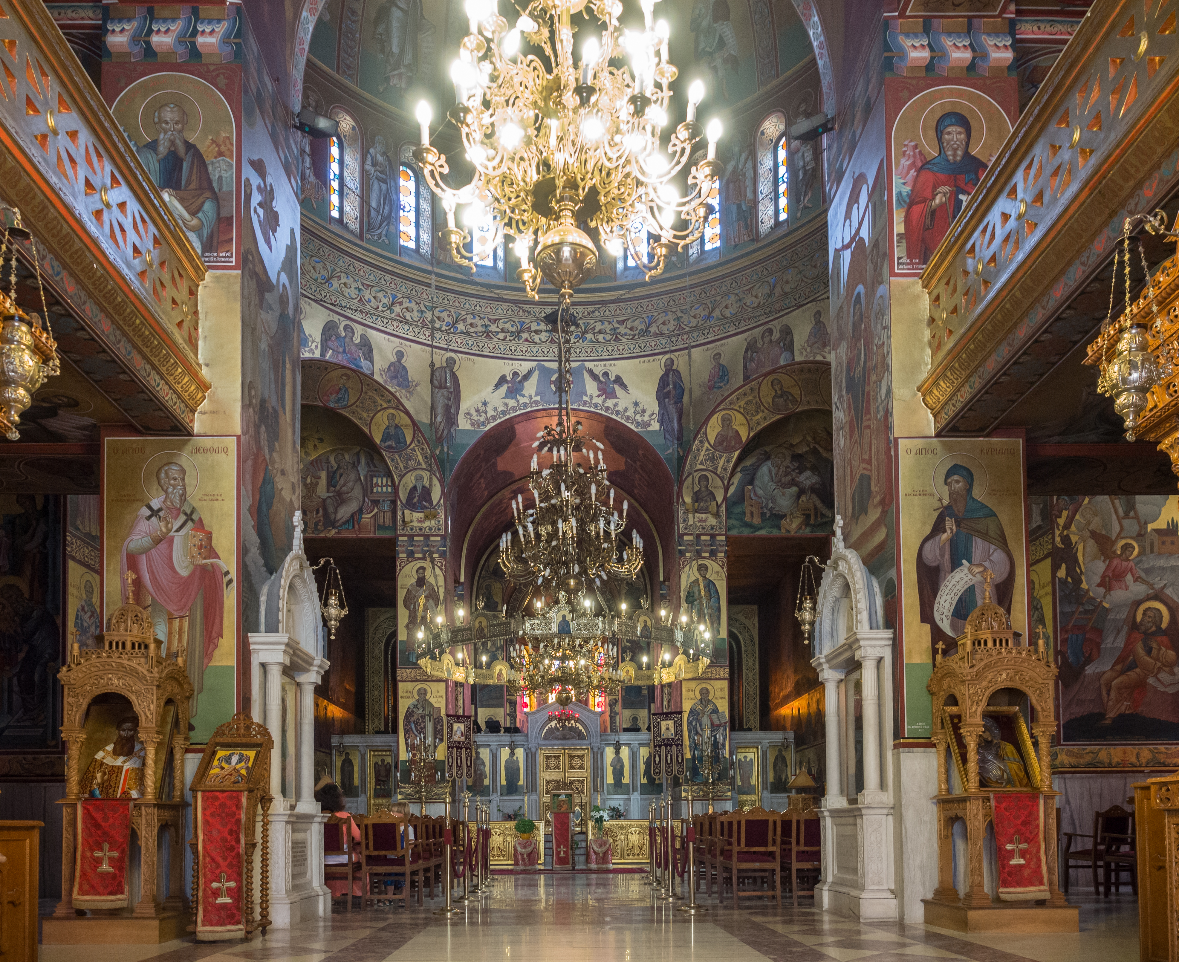 Interior view of the church of Saint Gregory Palamas in Thessaloniki